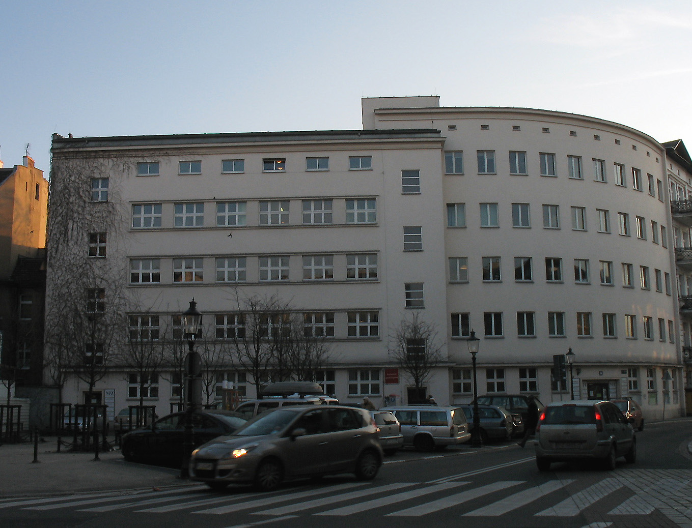 Poznan, Health Center from 1937 by arch. Jerzy Tuszowski